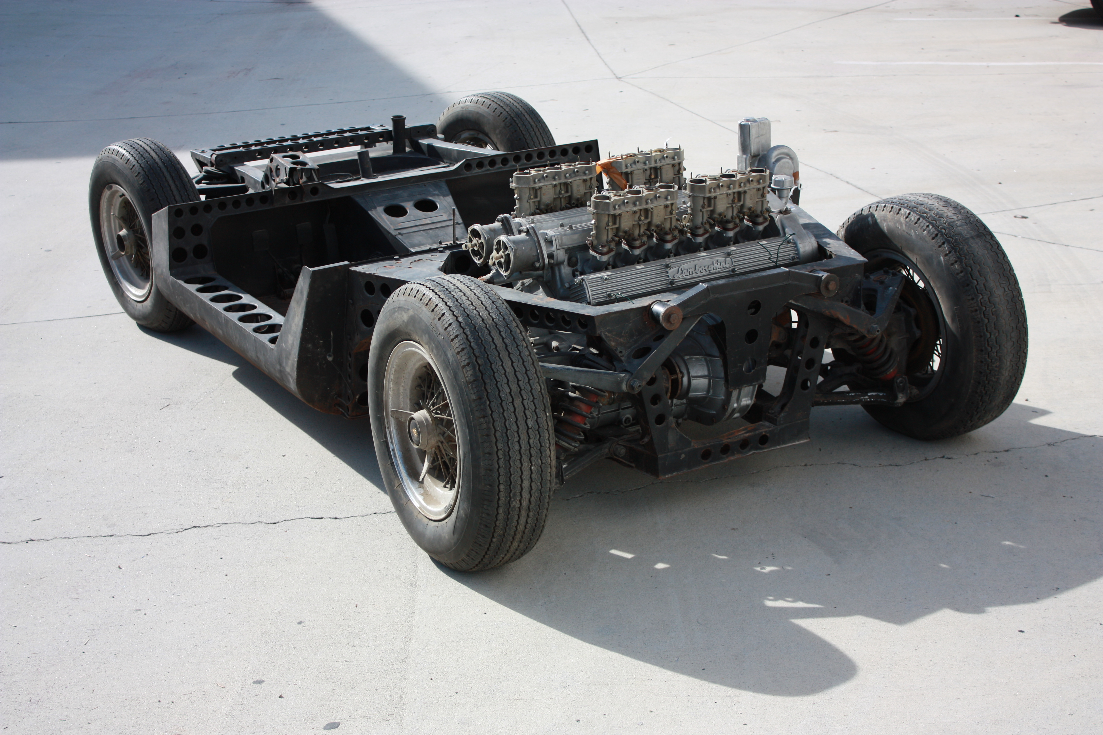 Photo taken in December, 2008 upon its arrival to the restoration facility in San Diego, California.